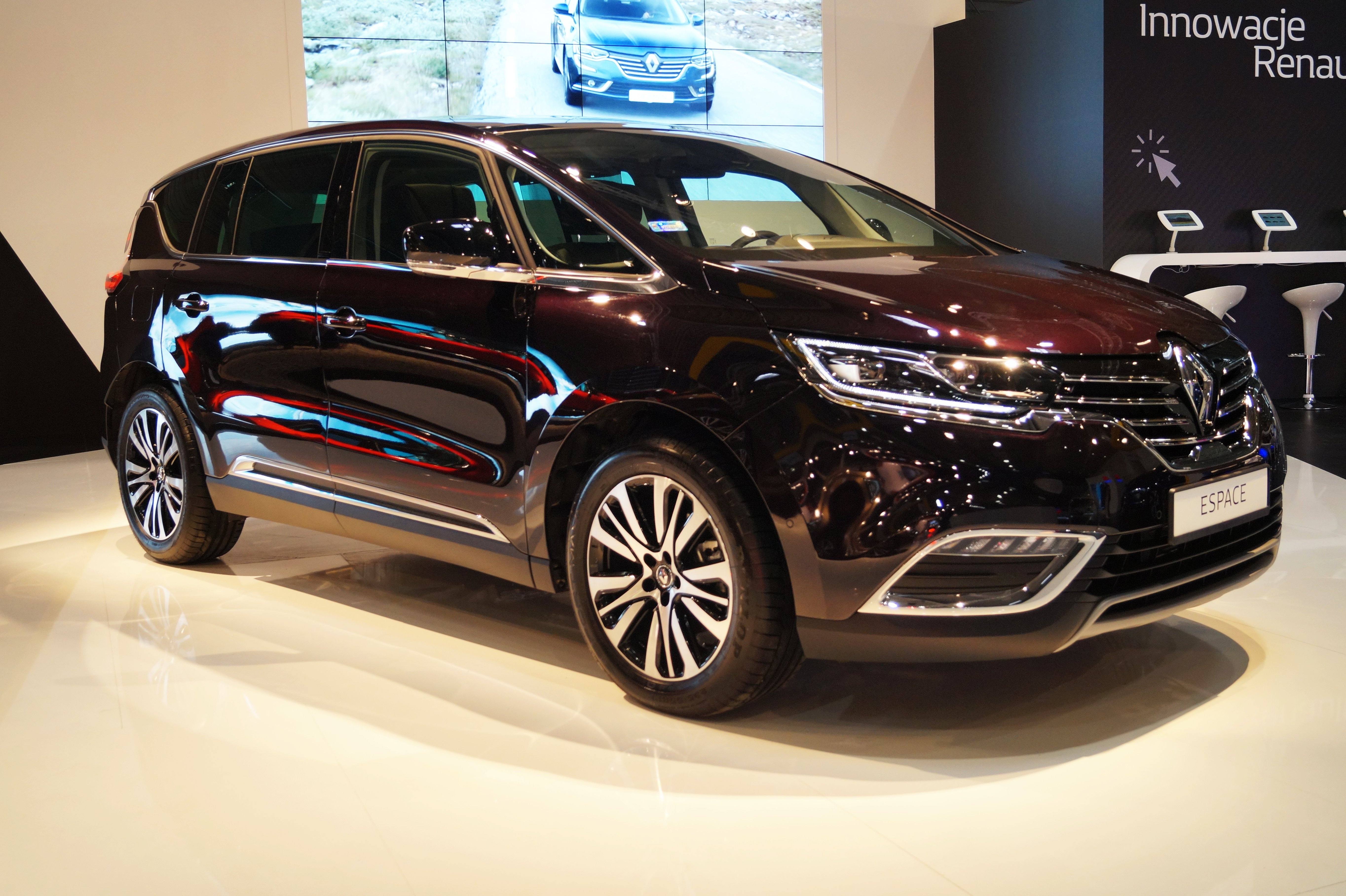 The making of this document was supported by Wikimedia Polska Association, within Wikigrant no. WG 2016-10. Renault Espace na Motor Show Poznań 2016